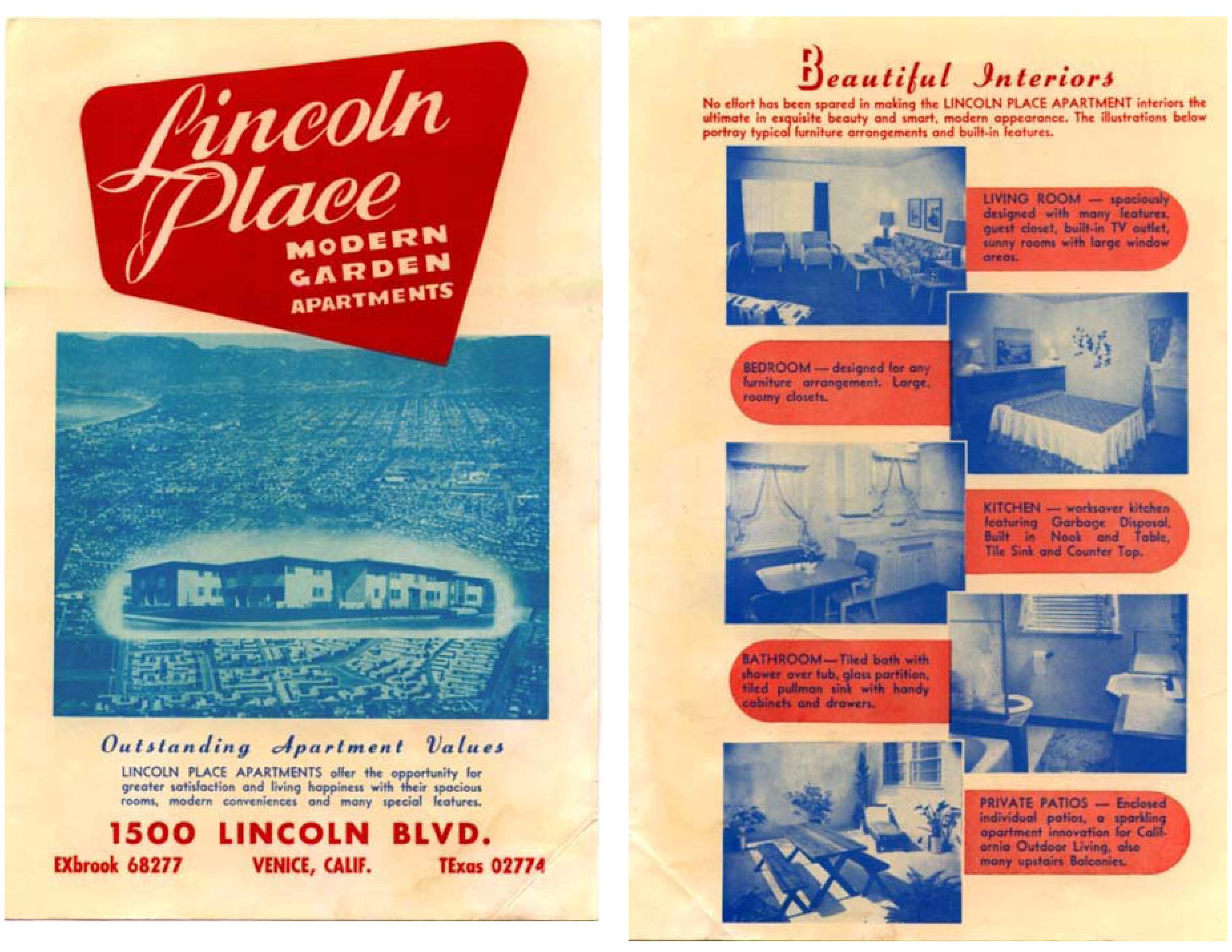 Scan of the original 1951 brochure (outside) for Lincoln Place Gardens. Information about the interiors. Photo depicts exterior, interior photos, logo and address.